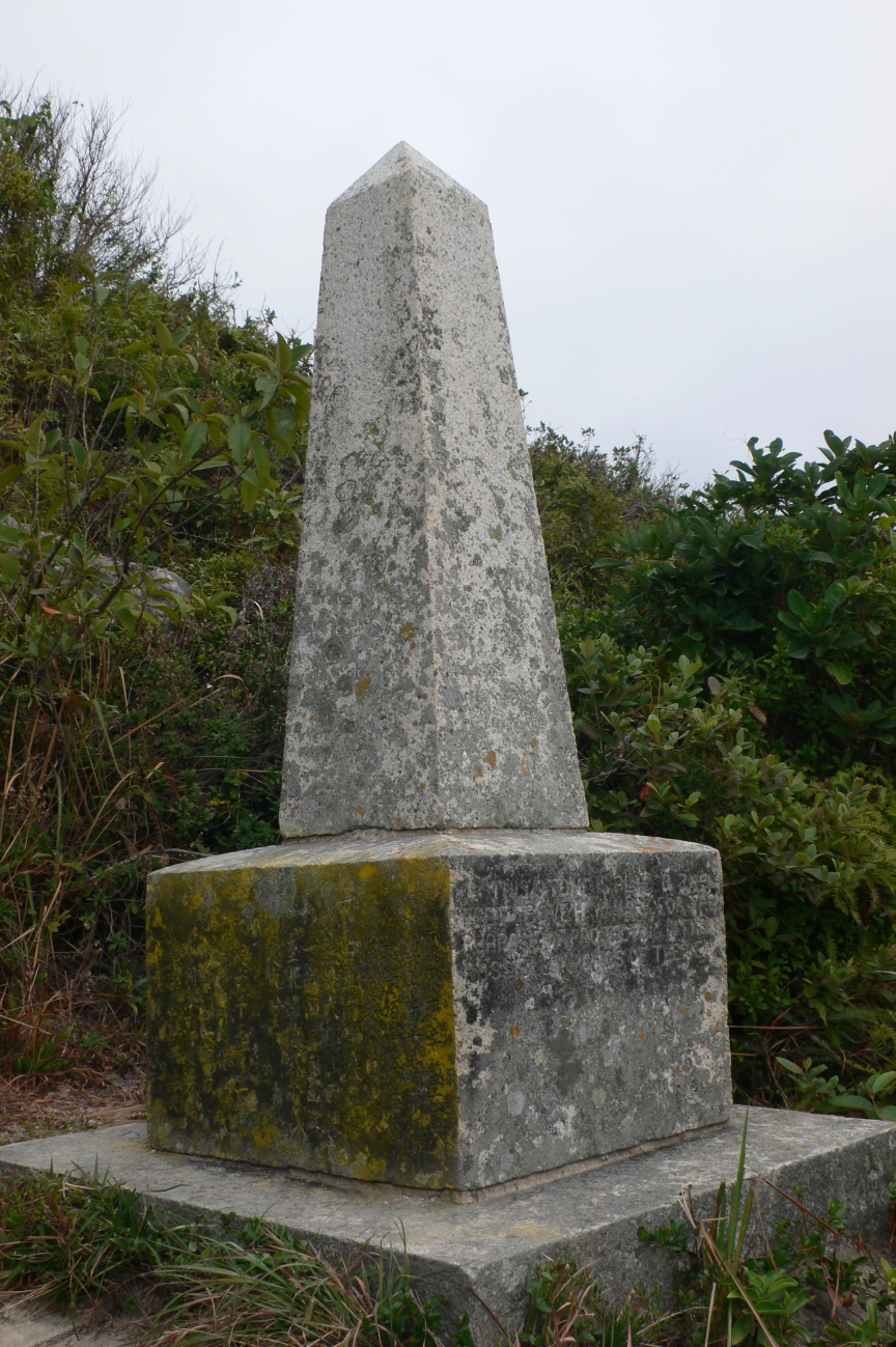 This obelisk was placed in Qing Dynasty (1902)as to clarify that Lantau Island was leased to the United Kingdom.